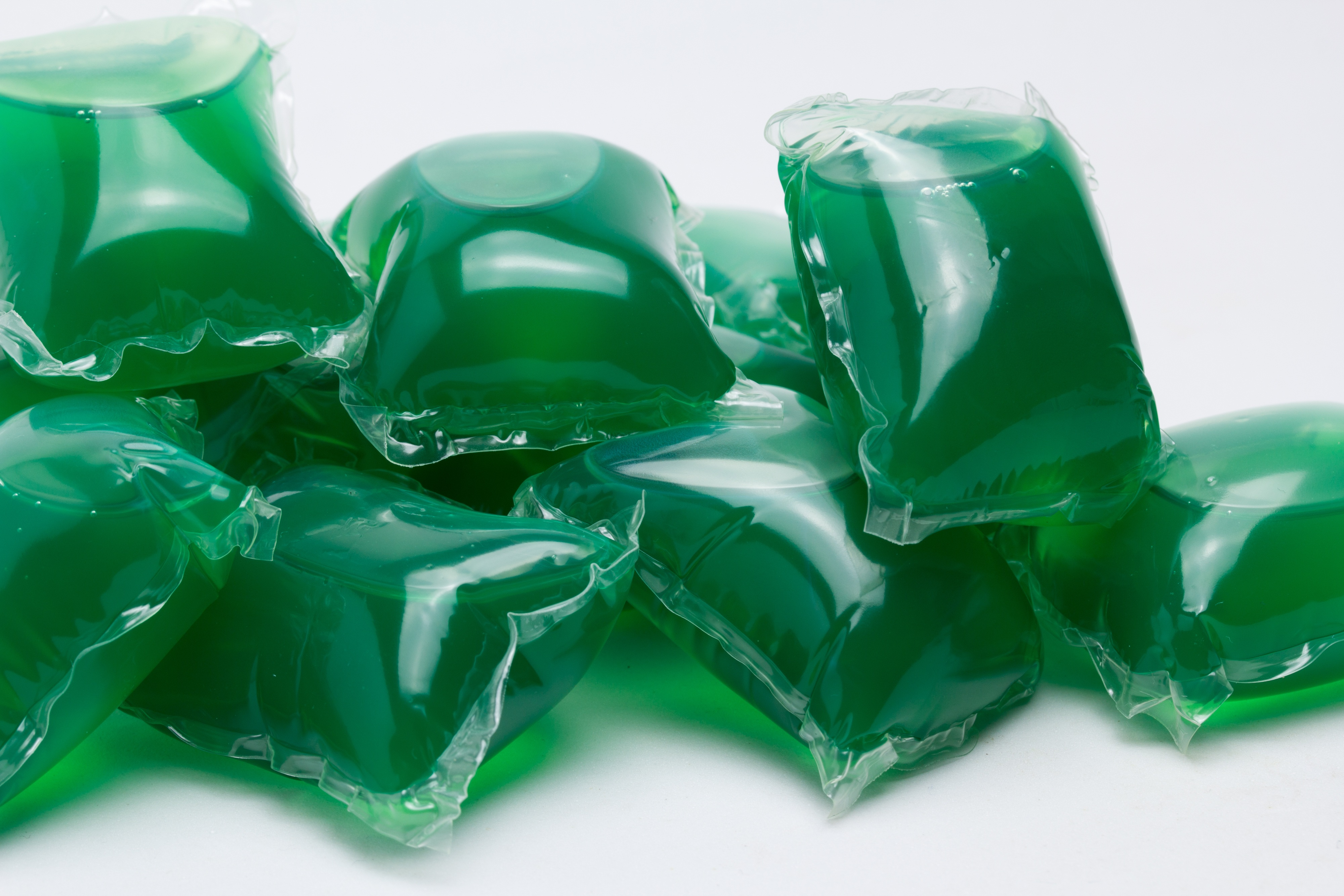 Green liquid detergent capsules.